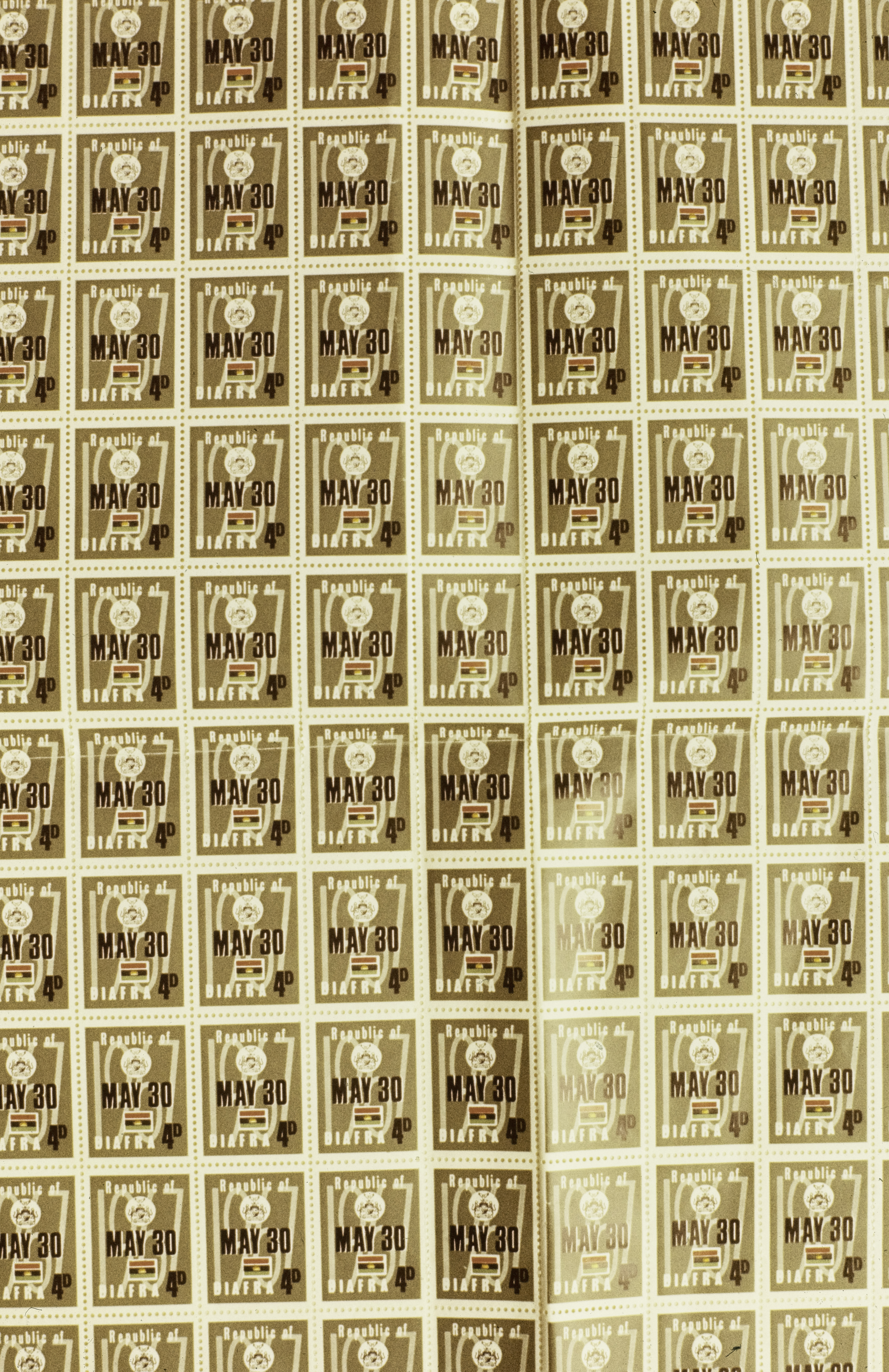 Biafra stamps. "Republic of Biafra. May 30. 4D". (May 30, 1967, the independence of Biafra was declared.) Photo of a sheet of 9x9 identical stamps, received for free in Owerri after the war.